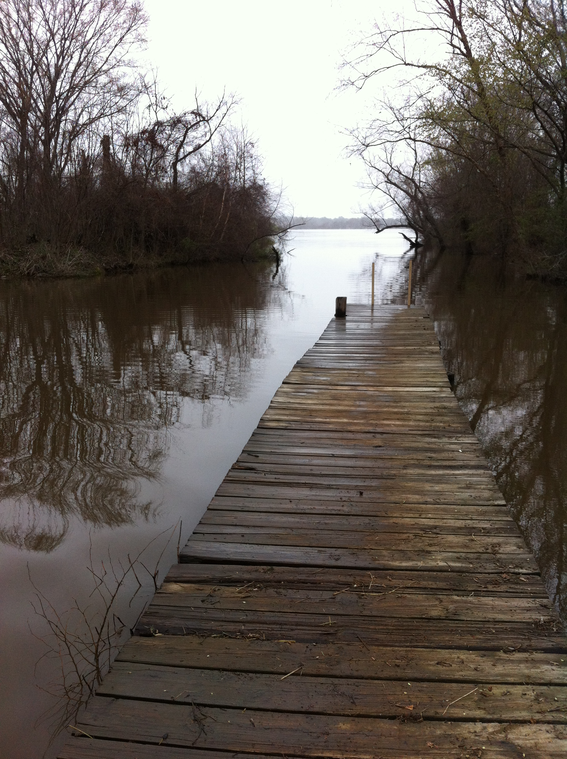 High water levels can be seen at a public boat launch ramp located near the lake's northwestern shoreline.